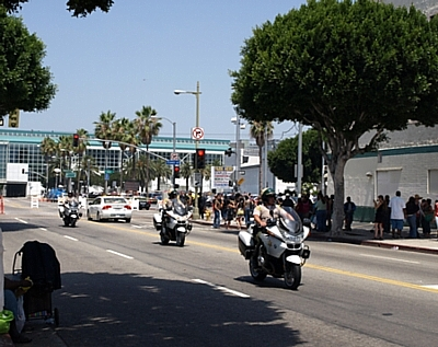 Los Angeles County Sheriff's Department motorcycle detail patrolling the parameter of the Staples Center during the Michael Jackson memorial service. View from the southeast-bound sidewalk of Pico Boulevard, looking north-northwest. This photograph was taken with an Olympus E-510 DSLR camera